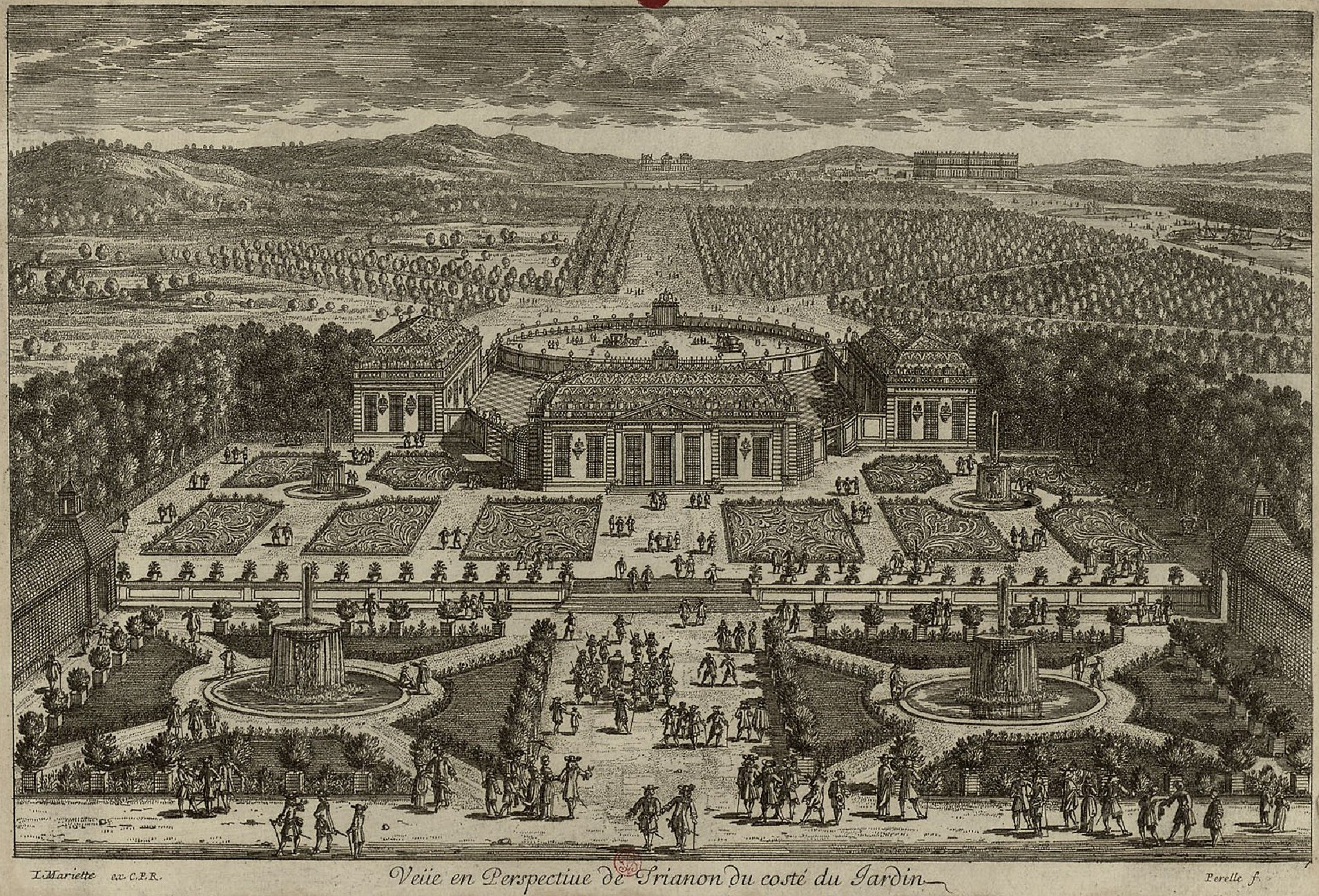 Vue en perspective du Trianon de Porcelaine et de ses parterres